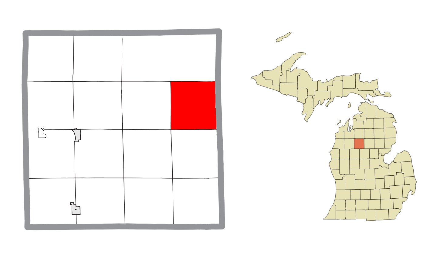 Enterprise Township, MI